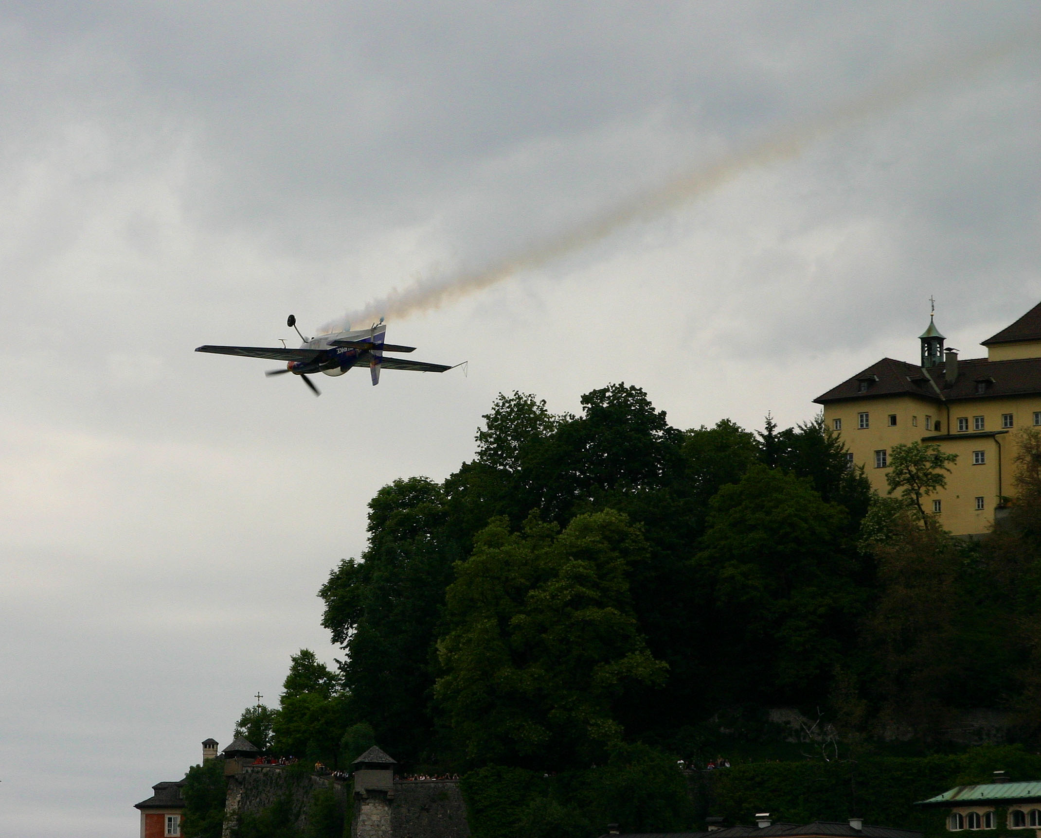 Inverted Flying, Salzburg Austria